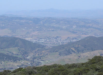 Town of Buellton, California, as seen from near Gaviota Peak, Santa Ynez Mountains, in Gaviota State Park. Photograph by Antandrus, August 6, 2002